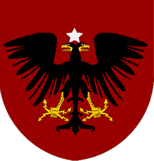 Principality of Albania (1914) Flag